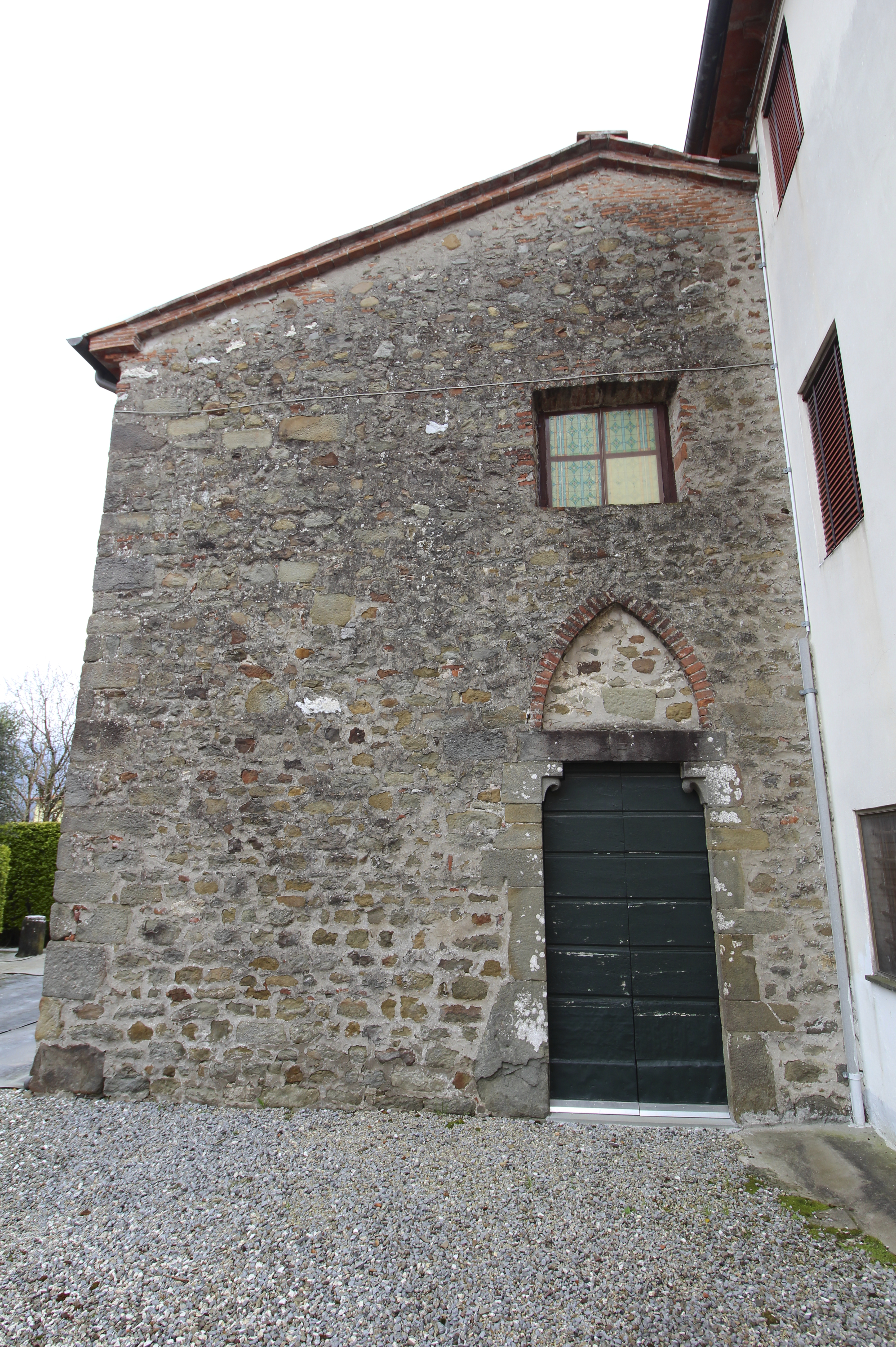 Church San Donnino, Marlia, hamlet of Capannori, Province of Lucca, Tuscany, Italy